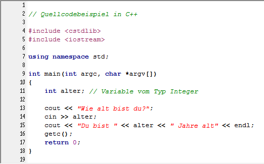 A Code Example in C++ (Screenshot of Dev-C++)